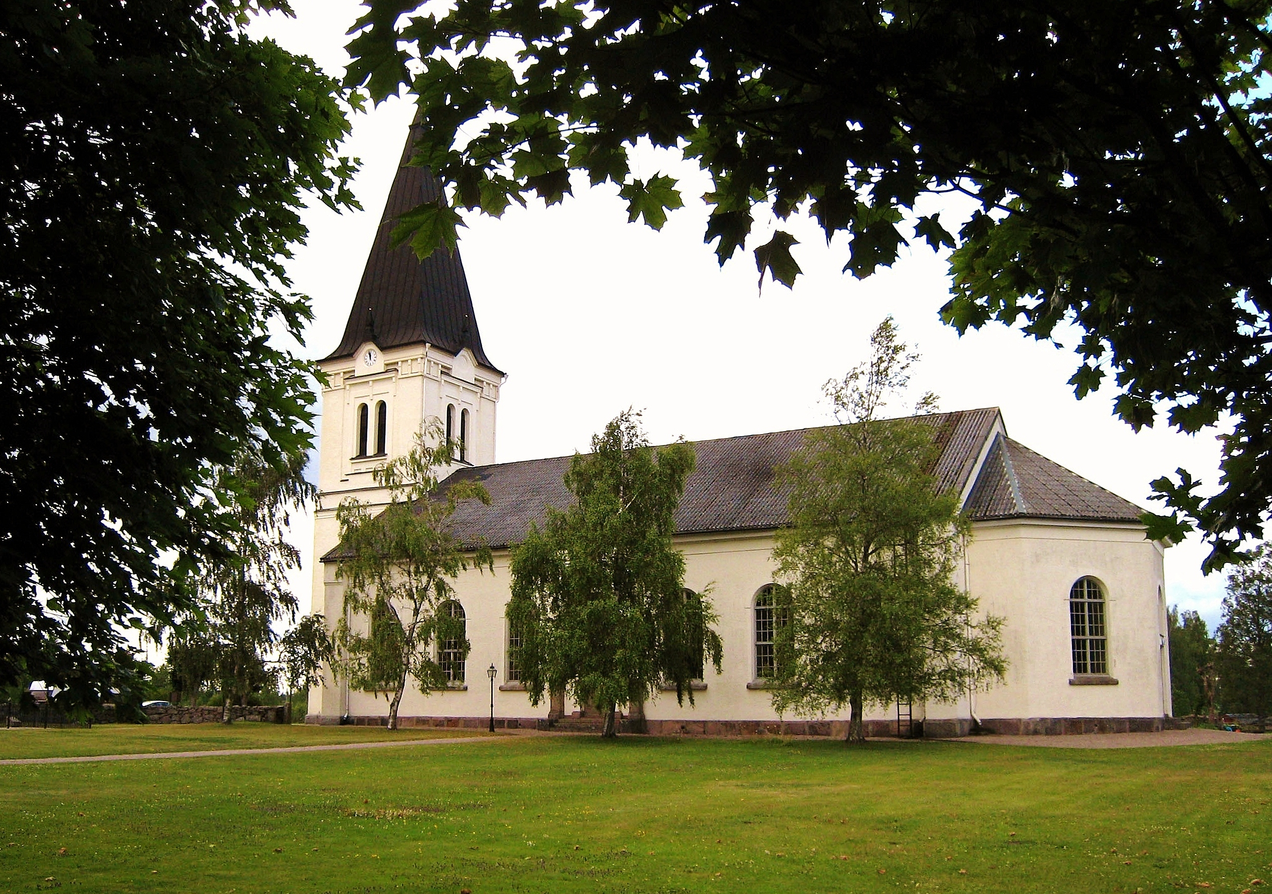 Lemnhult church